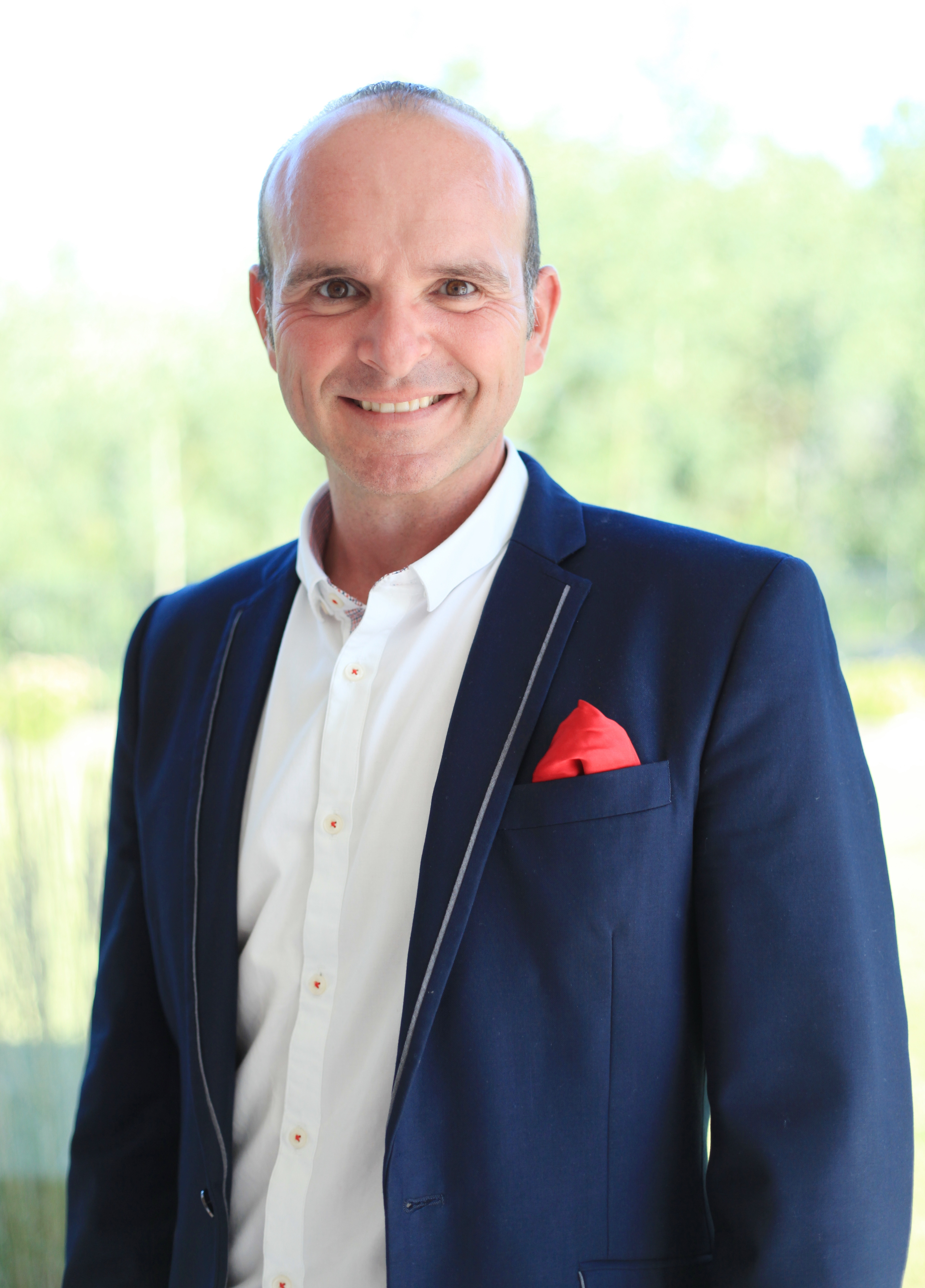 Headshot